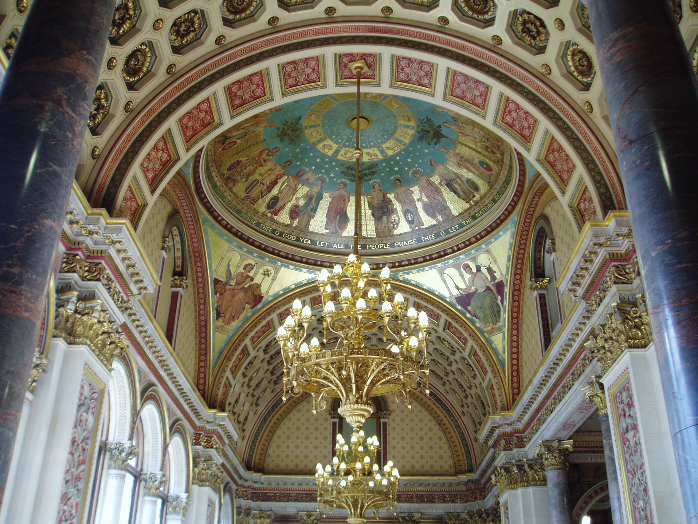 Ceiling, with paintings by Clayton & Bell, the State Stair (1863-8). At the The Foreign Office (Foreign and Commonwealth Office), London.